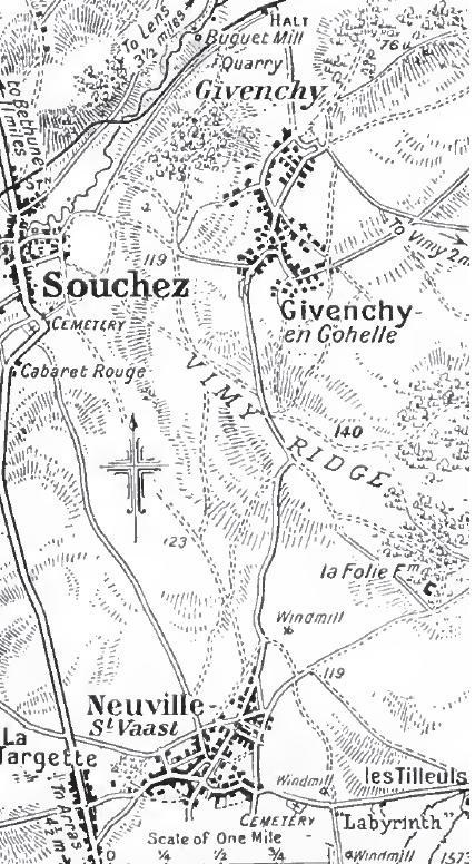 Map of the battlefront, Second Battle of Artois